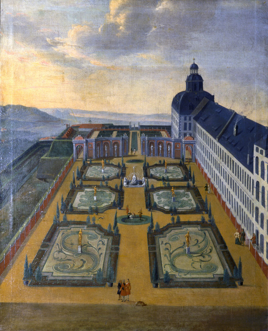 Gotha, Friedenstein Palace, palace museum; Michael Käseweiß, (attributed), East wing of Friedenstein palace with baroque garden and hilly landscape in the background, seen from the northeast. (after 1696)